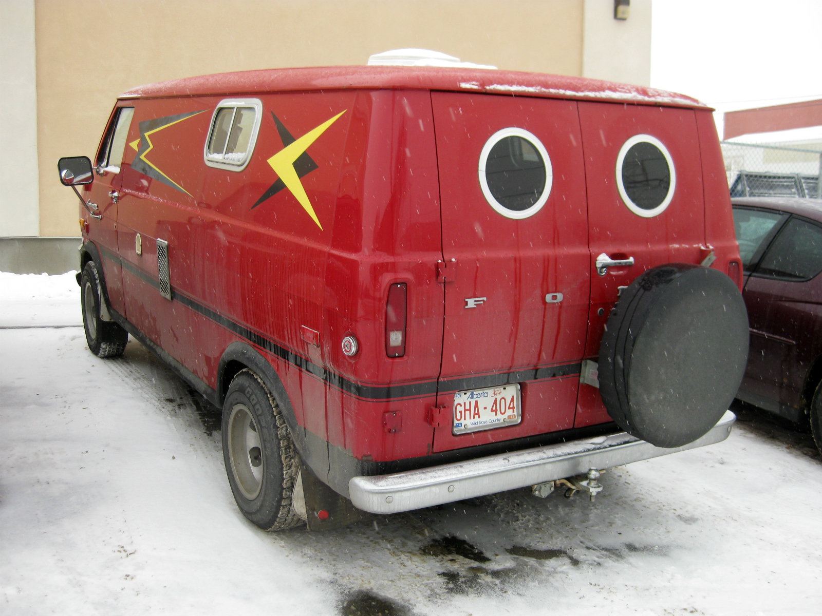 Very 70s looking Ford Econoline 200 van. Nice slot mag wheels too.